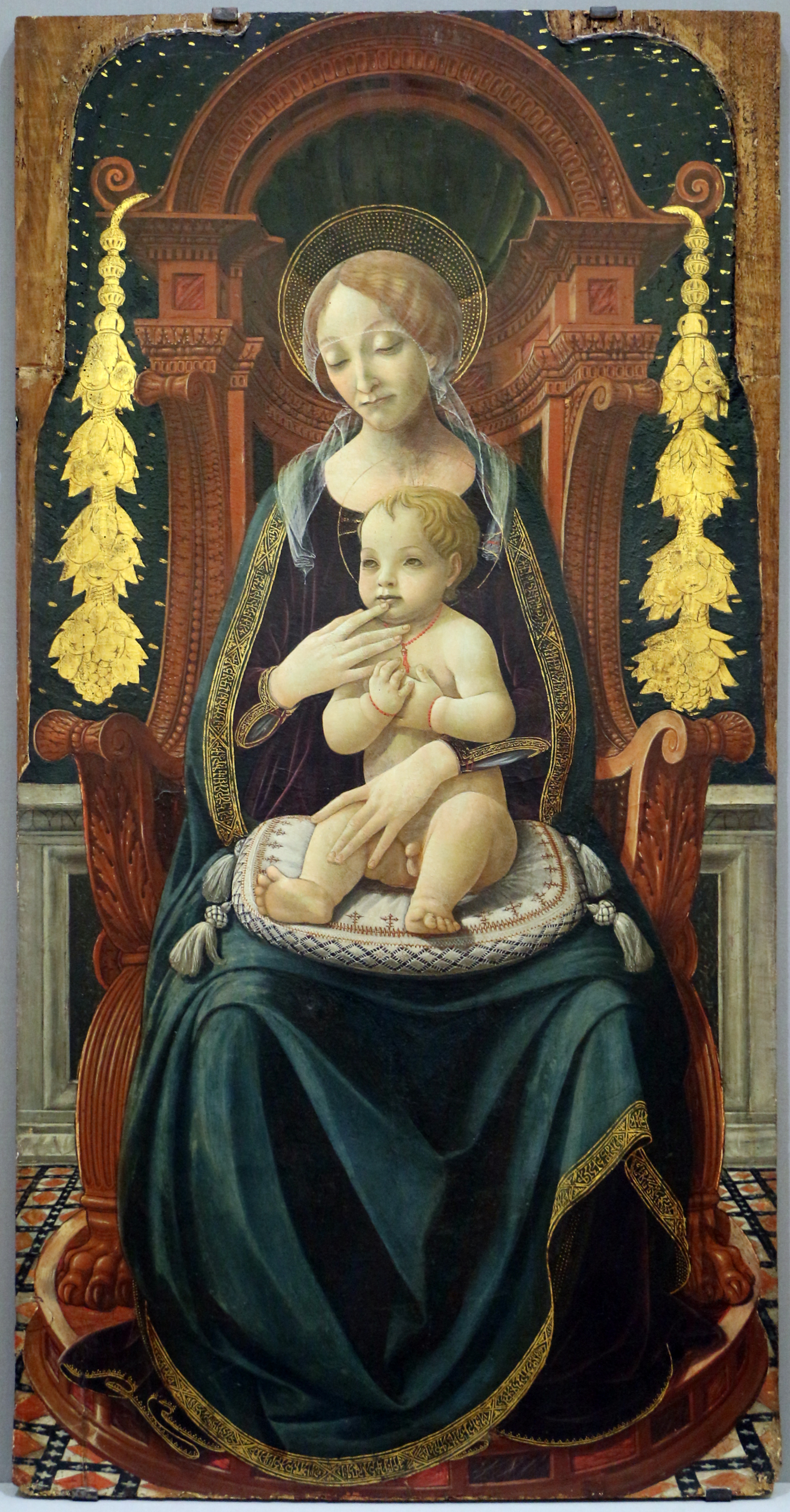 Paintings in Lucca